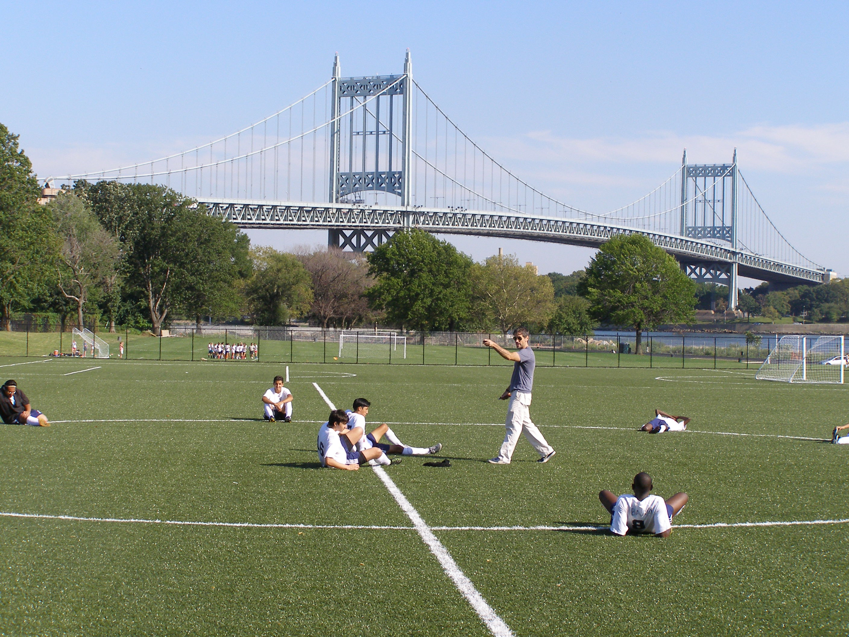 Wards Island / East River Fields